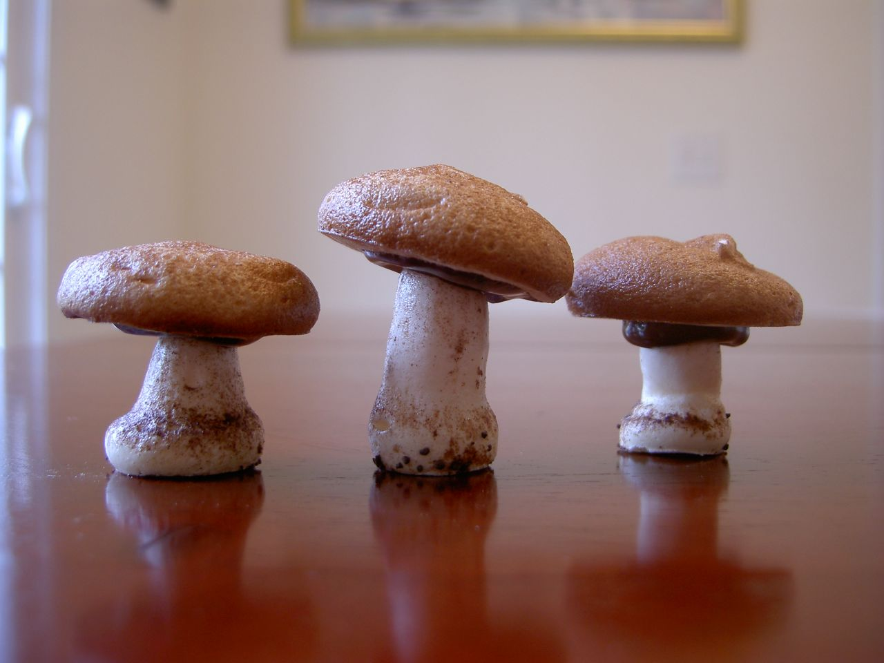 Three meringue mushrooms standing on a table.